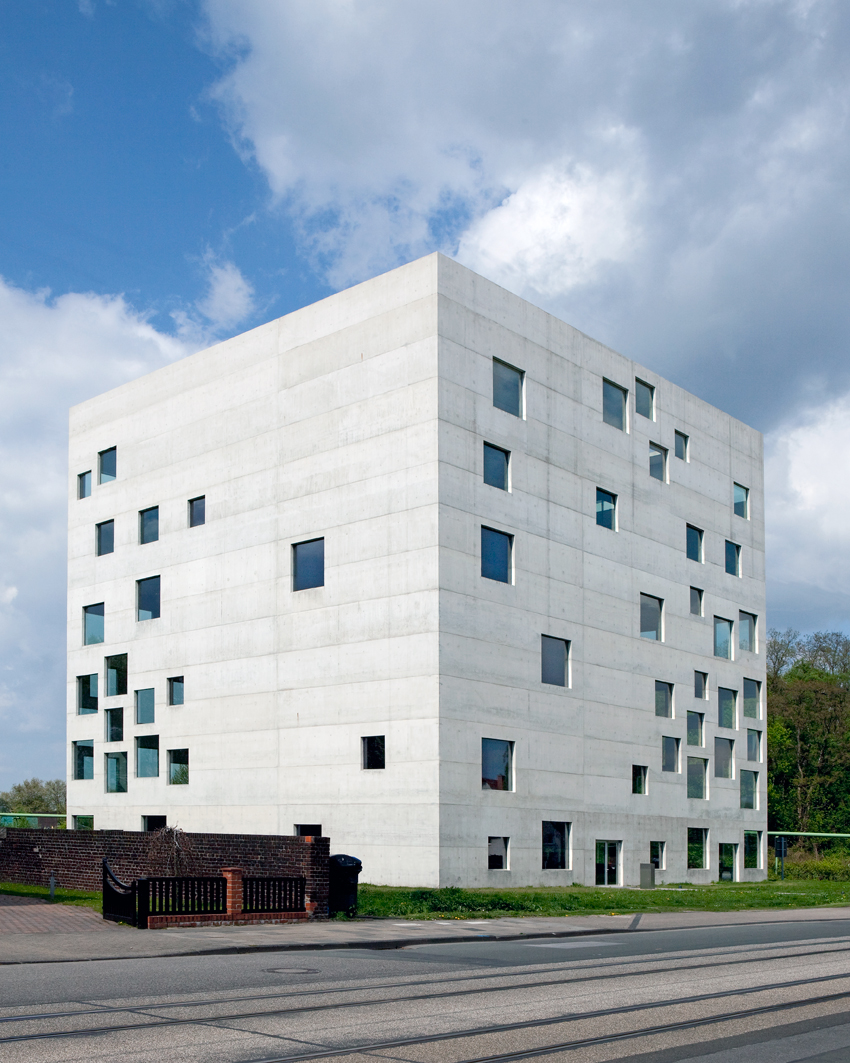 School-of-Management-and-Design at Zeche Zollverein, Essen